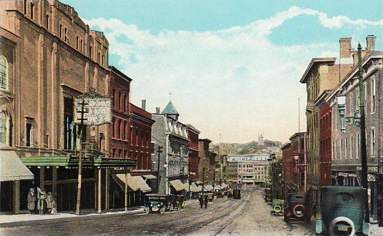 Main Street from the Bangor Opera House, Bangor, ME